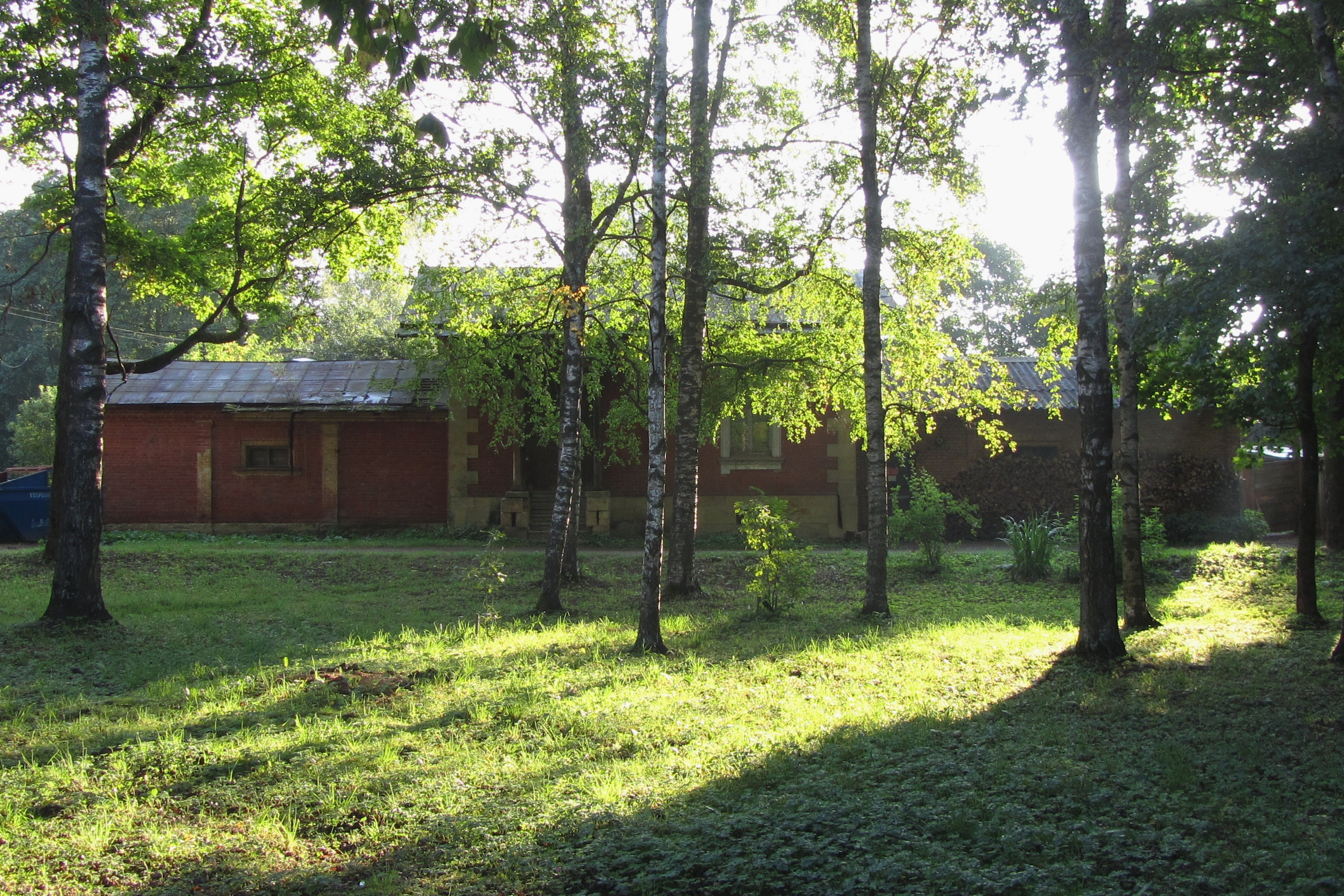 Guardhouse No 9, Gatchina, Russia, photo of 2014